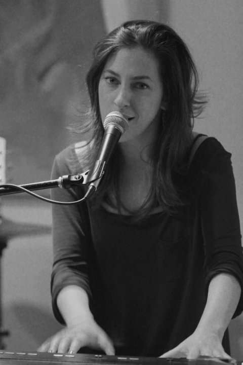 bla bla bla